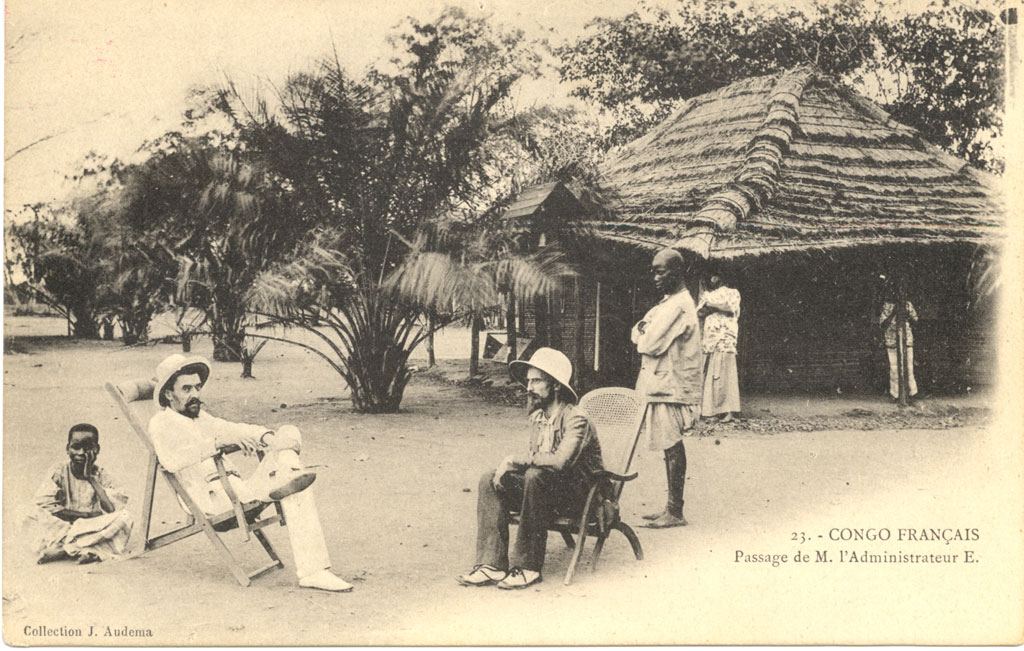 Congo Francais [postcard] : Passage de M. l'Administrateur E. Contained in: Postcard Collection, 1898-[ongoing] Phy. Description: postcard : b&w ; 9 x 14 cm. Produced: [ca. 1905] Summary: Translated caption reads: "French Congo. Passage of Mr. Administrator E. In the foreground, two leaders sitting in reclining chairs, in the background, village people and cabins. Congo Français. Photograph by J. Audema. General Note: Title source: Postcard caption. Image indexed by negative number. Leaders Subject - Geographical: Congo (Brazzaville) Form / Genre: Postcards Repository Loc: Smithsonian Institution, National Museum of African Art, Eliot Elisofon Photographic Archives, 950 Independence Avenue, S.W., Washington, DC 20560-0708 Local Number: EEPA 1985-140004